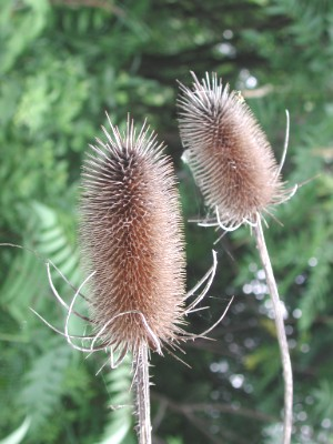 Fullers' Teasel: dried head; Image taken by me, released under GFDL Pollinator 05:39, 21 Feb 2004 (UTC)